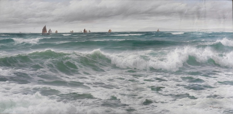 Original painting by David James, 1888